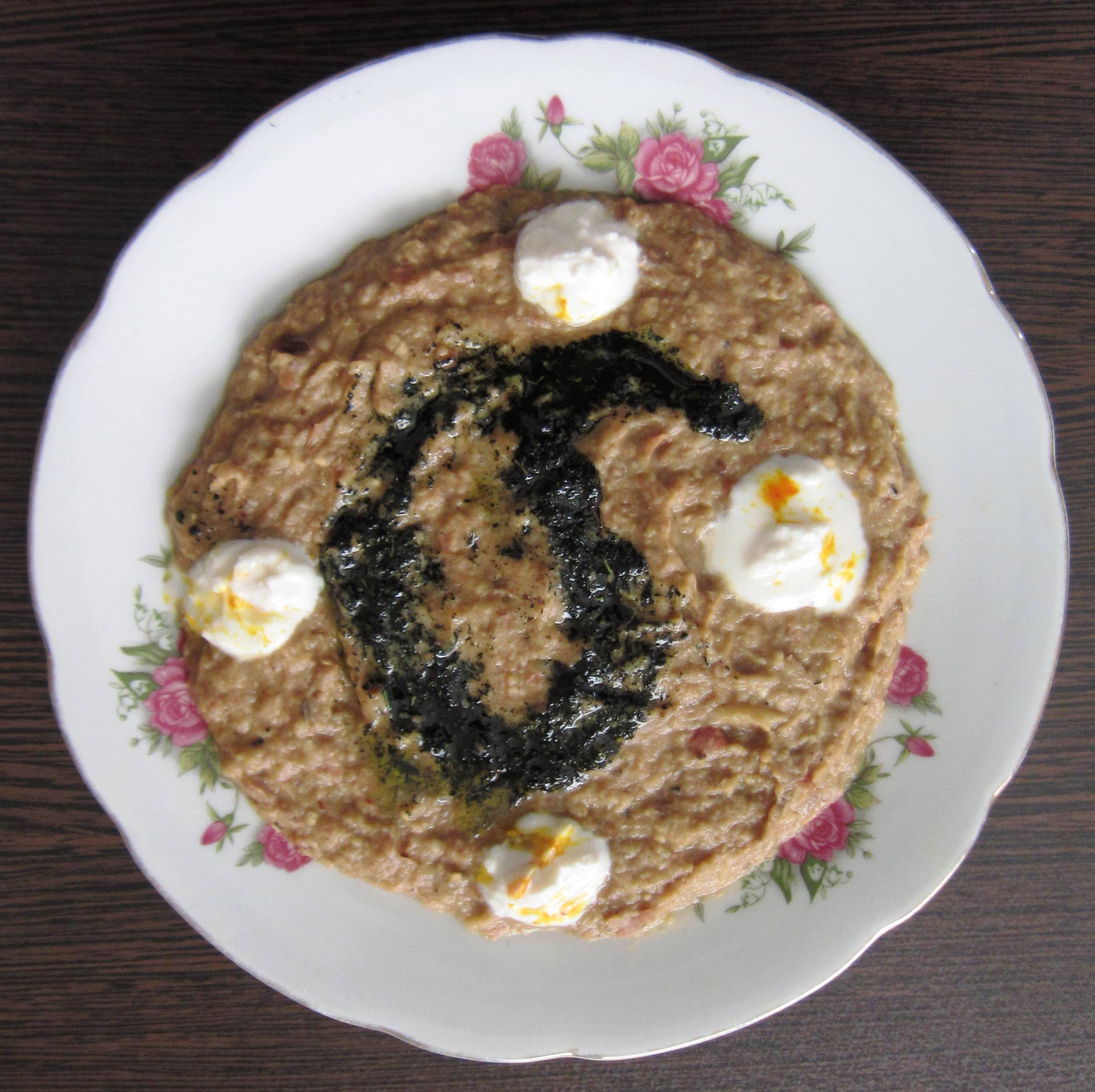 Halim Bādemjān, an Iranian food made from eggplant (bādemjān), meat and bean.